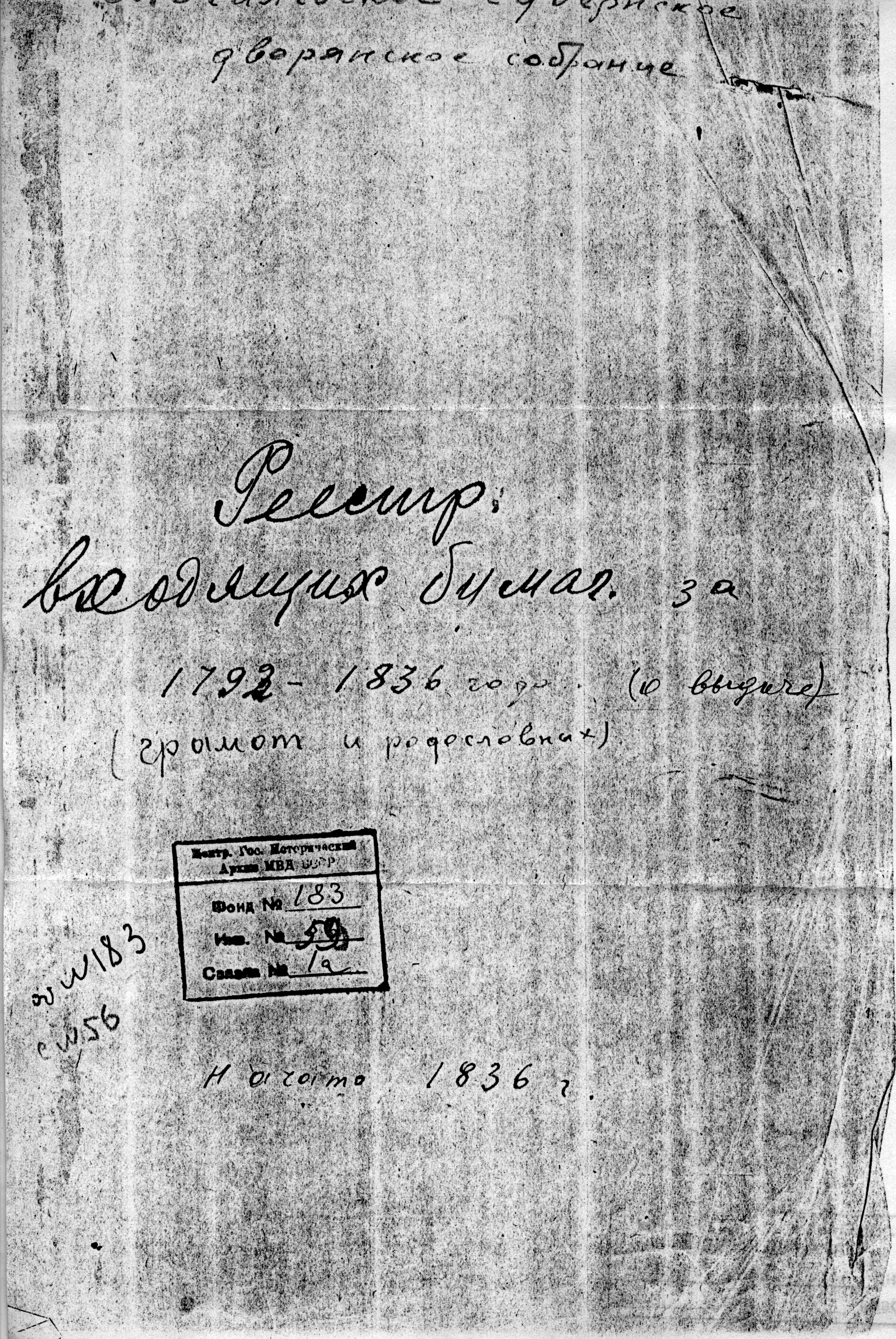 Certificate for the extradition of genealogy and Noble Diploma # 835 for Russian nobleman Mogilev province Mr. Krupski Martsyn Fyodorovich in 1811